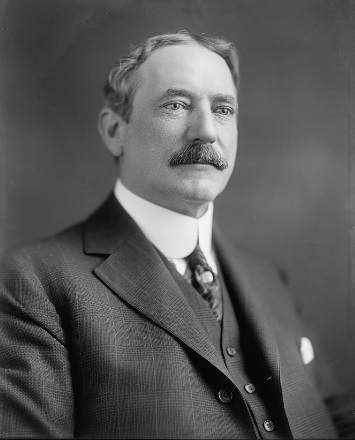 John R. Ramsey, New Jersey Congressman